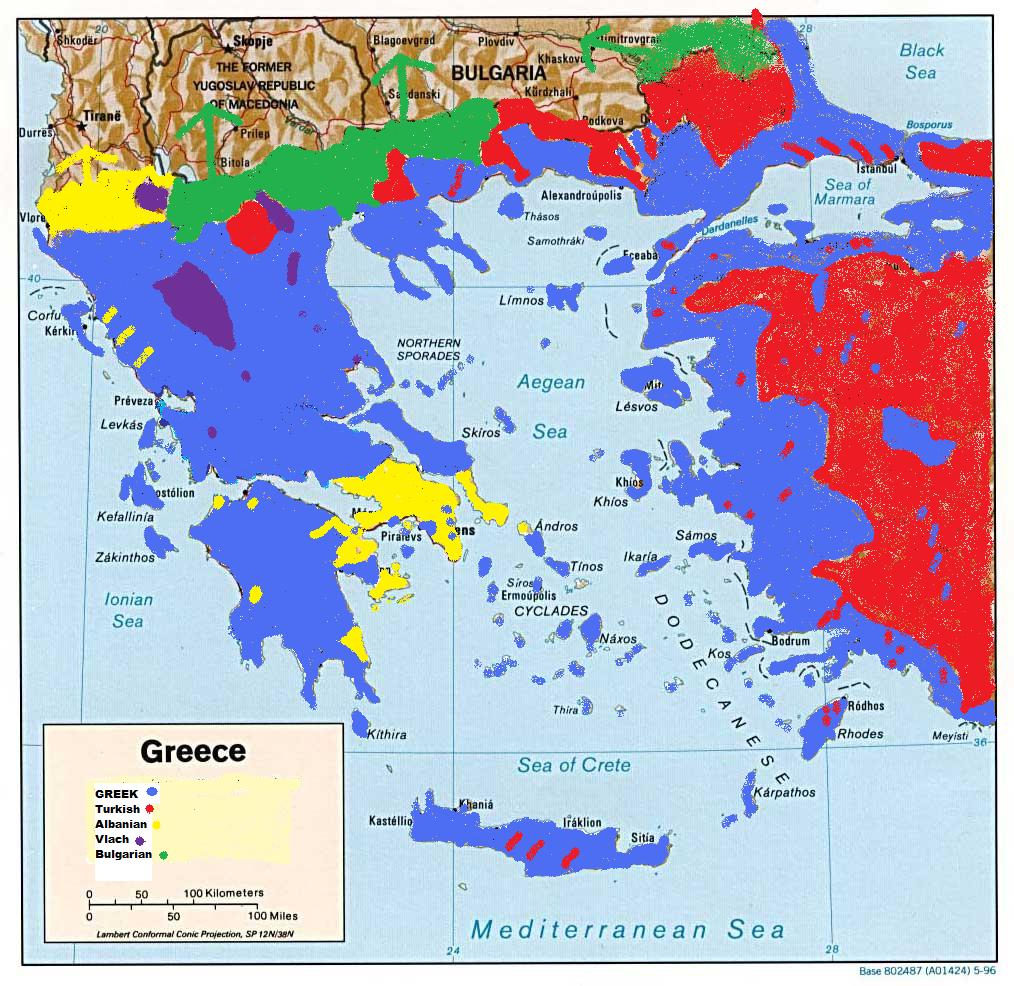 Greek language, 18th century.